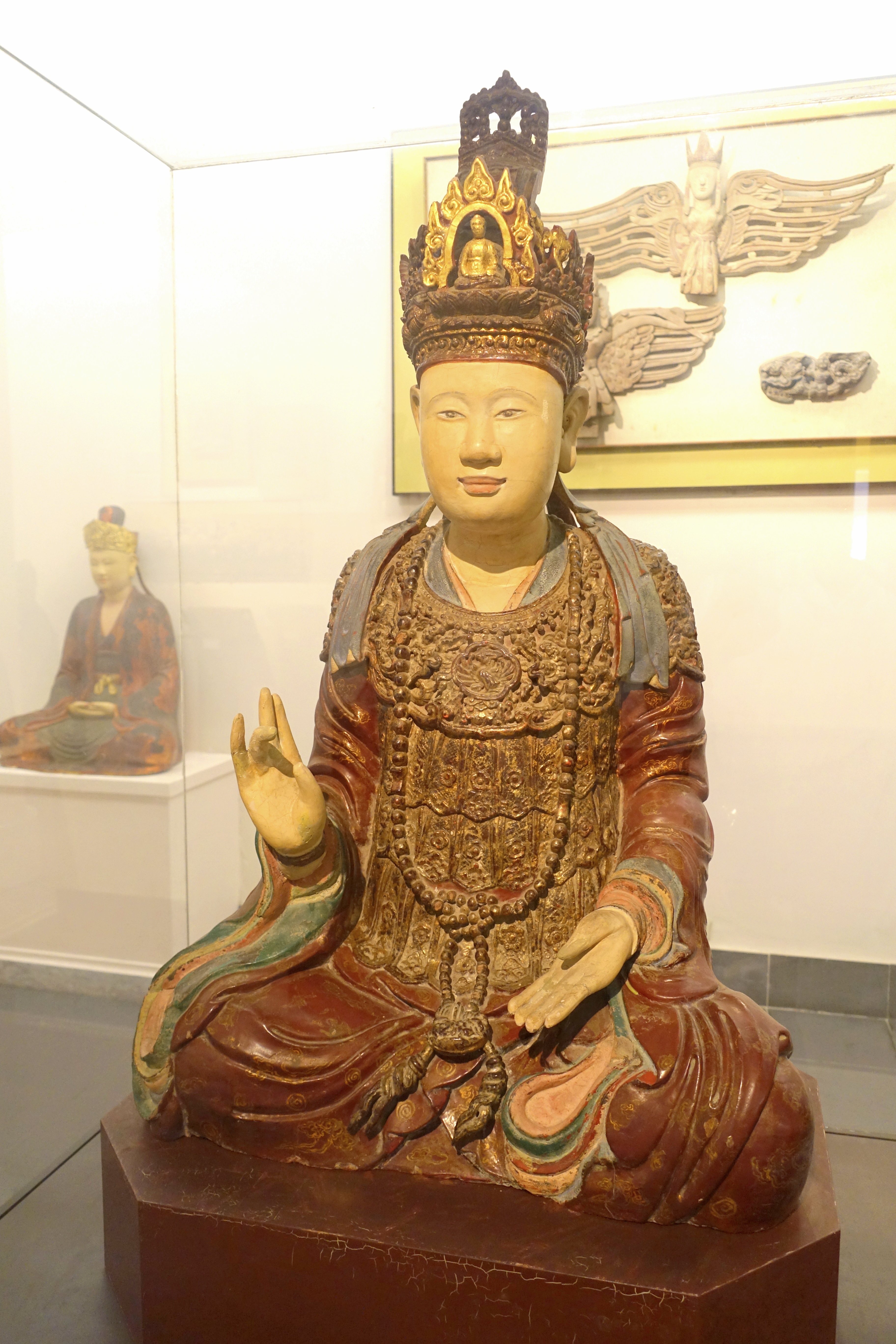 Exhibit in the Vietnam National Museum of Fine Arts - Hanoi, Vietnam. This artwork is old enough so that it is in the public domain.